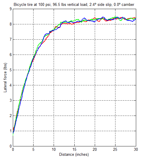 Plot of lateral force vs distance rolled for a bicycle tire